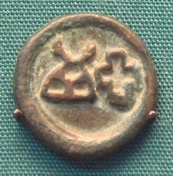 Taxila coin 200-200 BCE. Compare with Mitchiner# 4413.